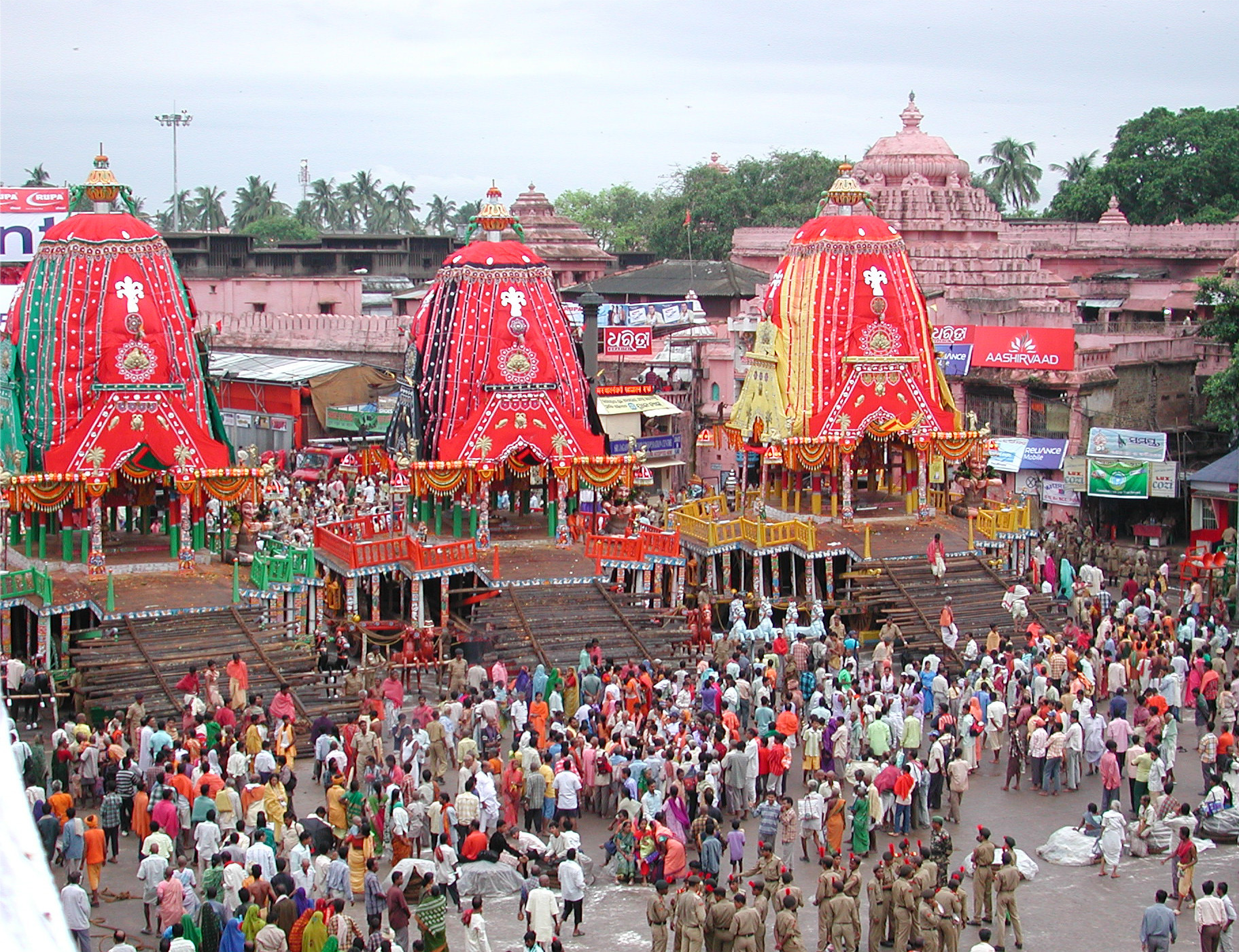 Rath Yatra Festival in Puri, Orissa, India